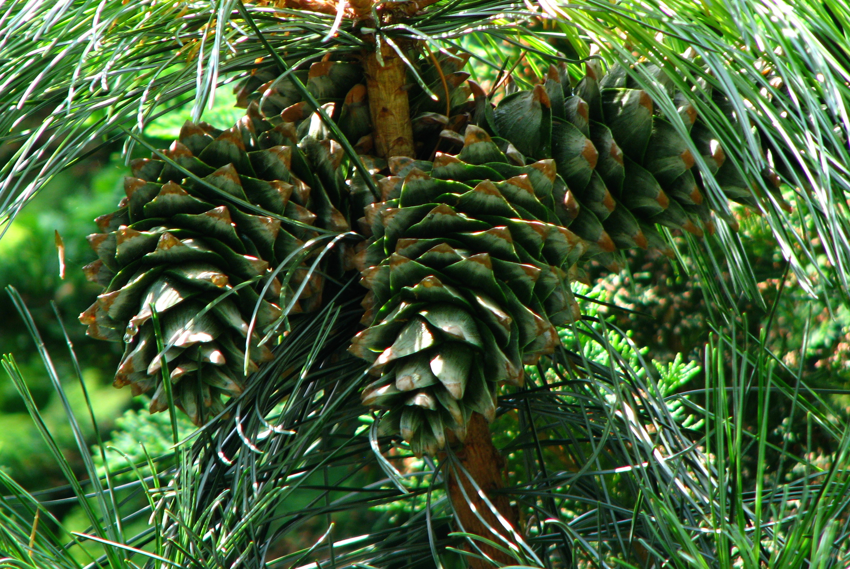 Korean Pine (Pinus koraiensis) seed cones, plant cultivated in Wrocław University Botanical Garden, Wrocław, Poland.